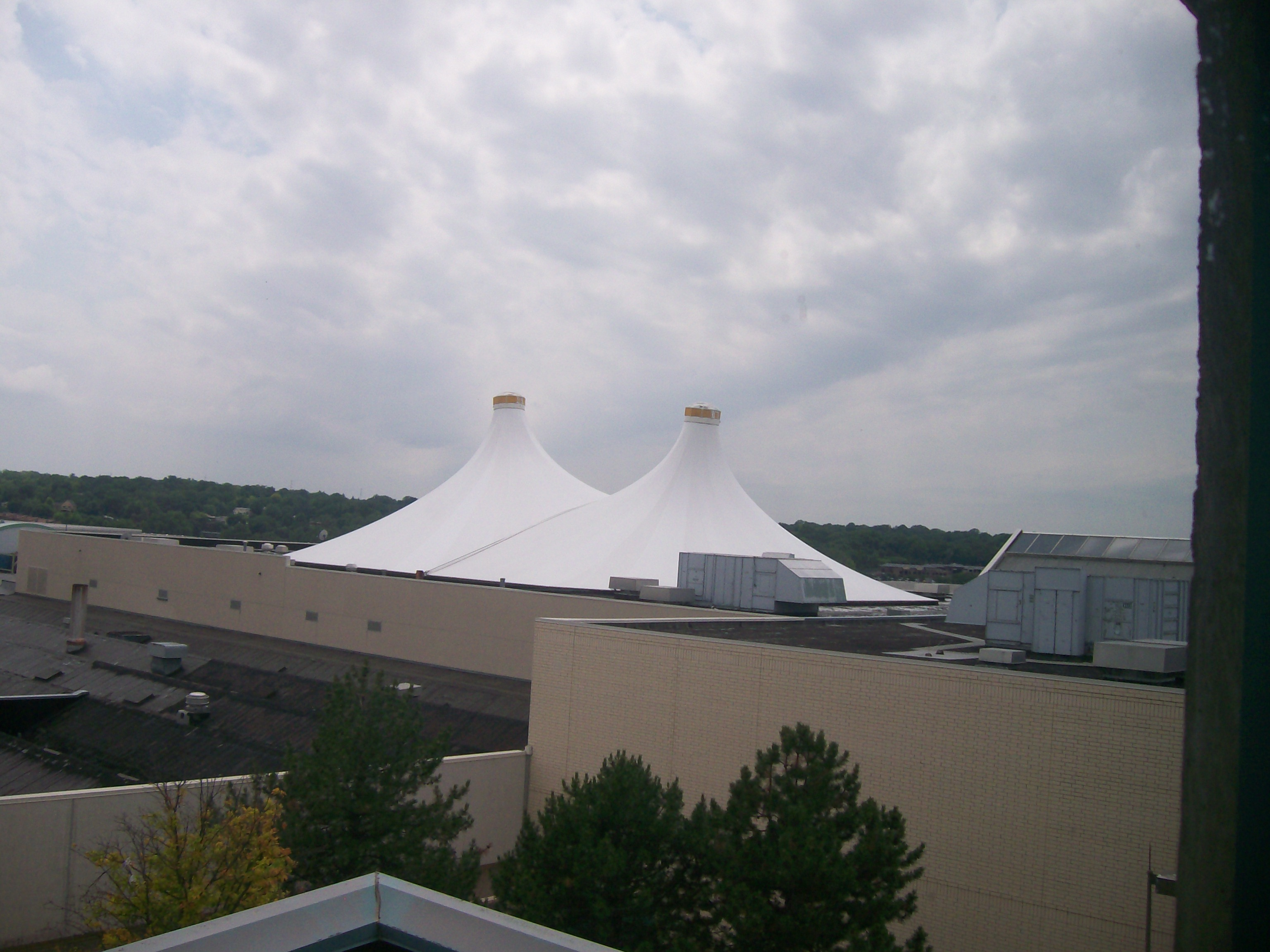 A picture of the membrane tent ceiling of Crossroads Mall in Omaha taken from the top floor of the parking garage.